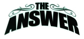 logo the answer